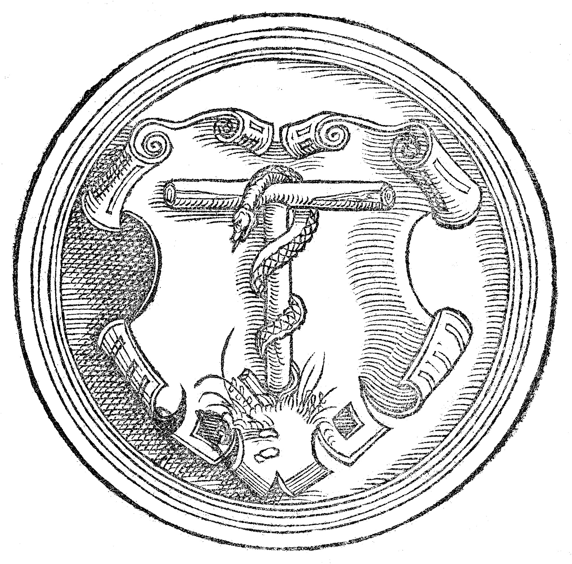 The crest of Philipp Melanchthon features the bronze serpent made by Moses to cure the Israelites of poisonous snakebites during their forty years in the wilderness.